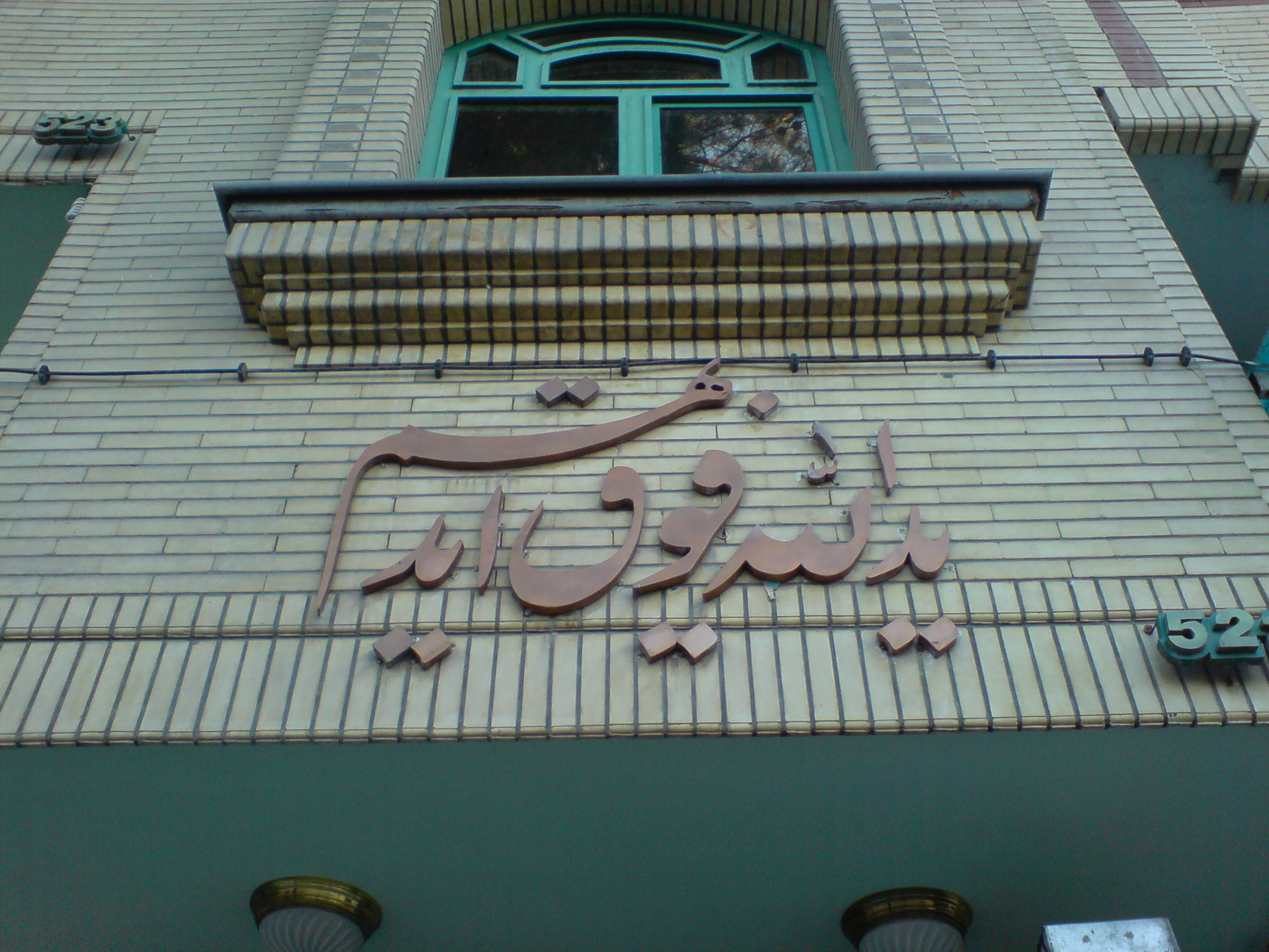 Aya of Quran on a building at Nishapur